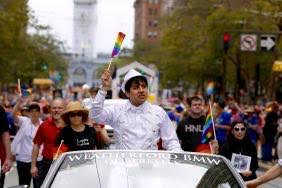 I took this photo of at the SF Gay Pride parade 2015